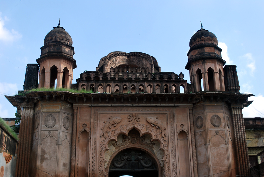 Qaiser Bagh Gate, also known as Lakhi Phatak, entrance to Qaiser Bagh Palace Complex